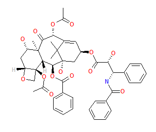 The structure of Paclitaxel